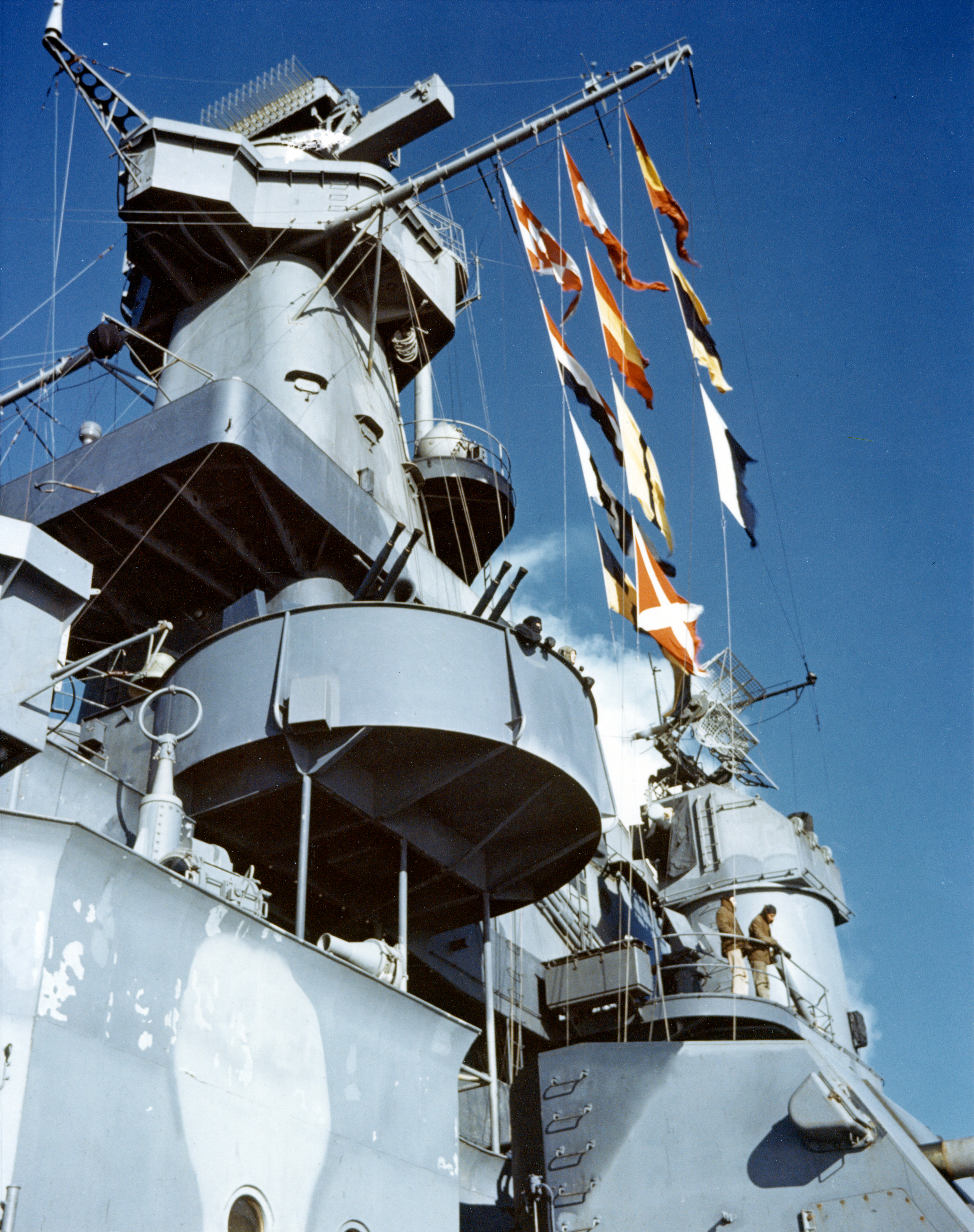 View of the ship's forward superstructure, looking up from the port side during her shakedown period, circa December 1942. Note: Signal flags; Mk.8 fire control radar on Mk.38 main battery gun director (at top); Mk.4 fire control radar on Mk.37 secondary battery gun director at right; radio direction finder loop at left. Official U.S. Navy Photograph, now in the collections of the National Archives.